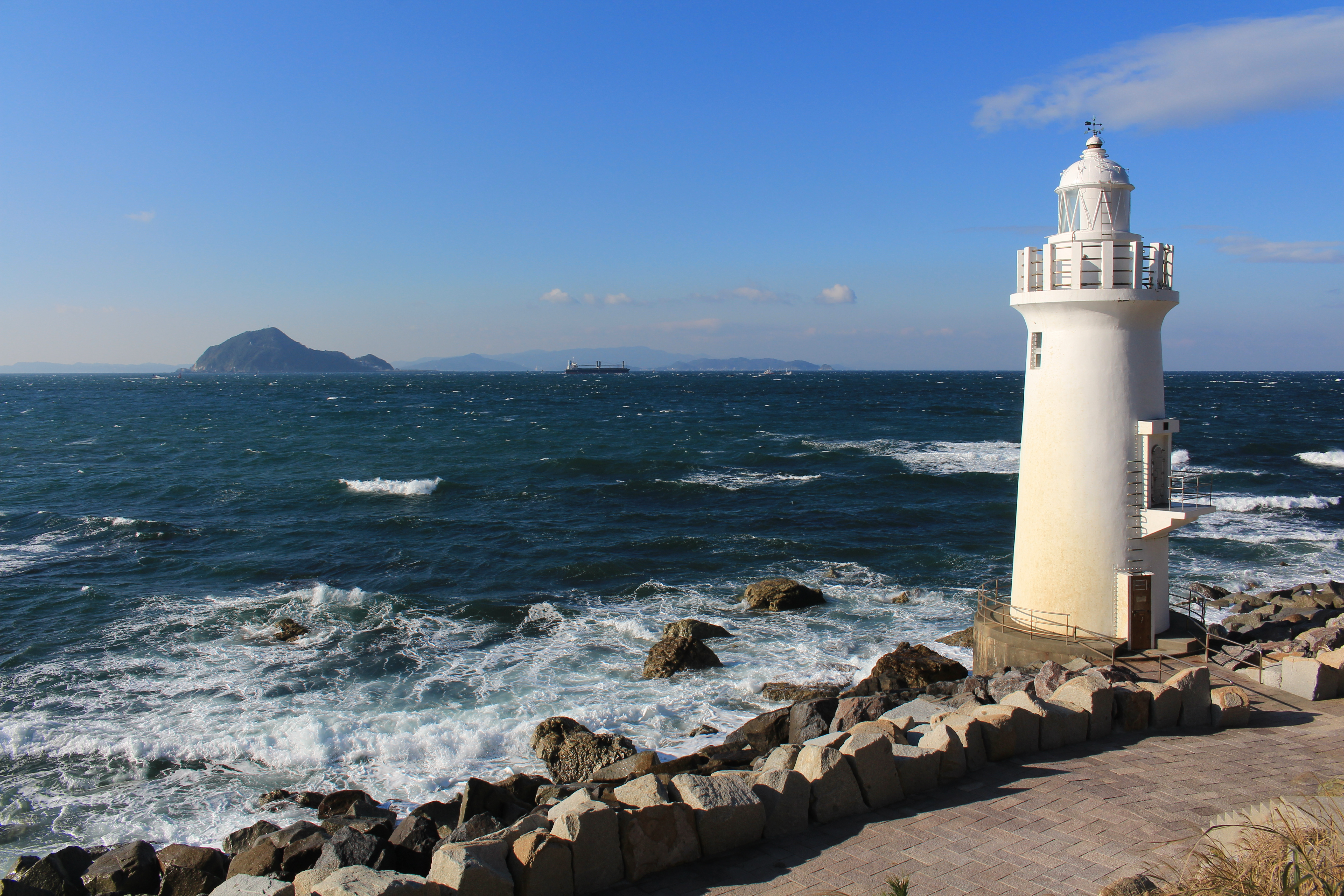 Irago Lighthouse and Kami Island, in Ise Bay, Japan.